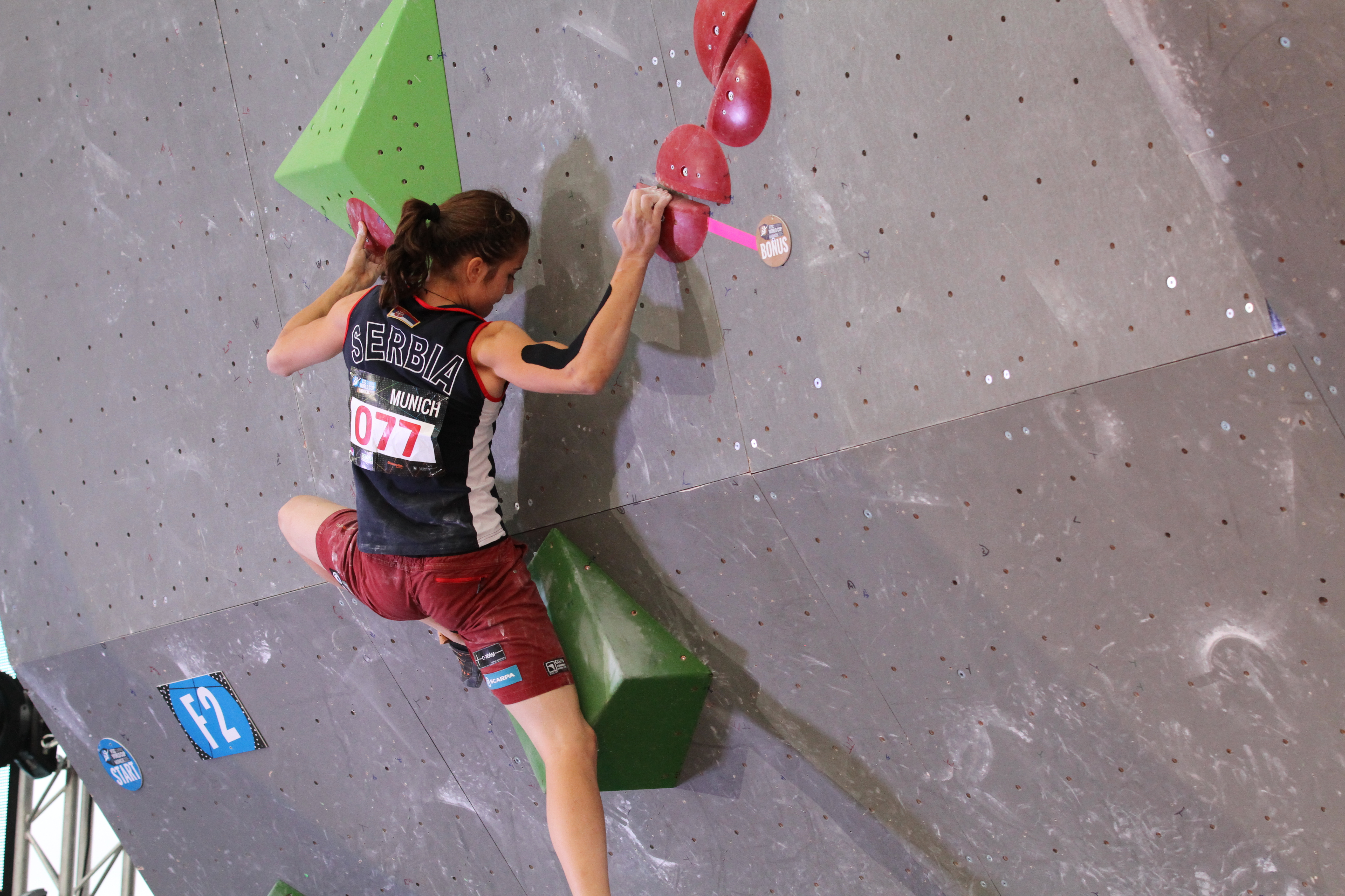 IFSC Boulder Worldcup, Munich 2015. Stasa Gejo (SRB)